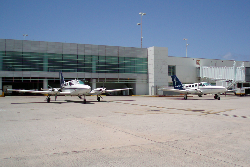 Cape Air Cessna 402C's in San Juan